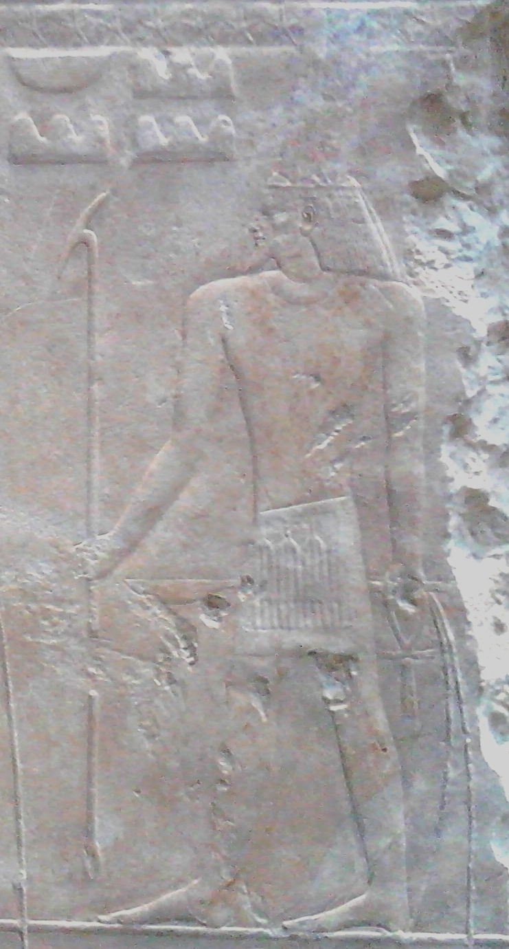 Sopdu on Sahure relief, Neues Museum Berlin